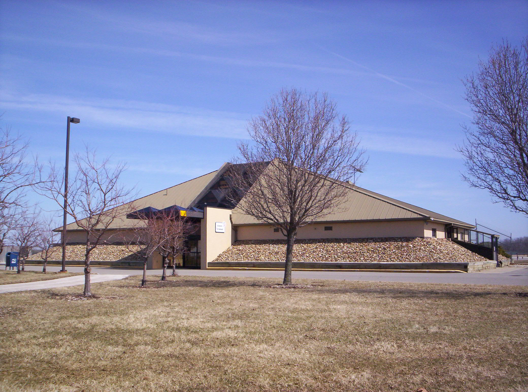 A view of Mansfield Lahm Regional Airport's (MFD) terminal building.